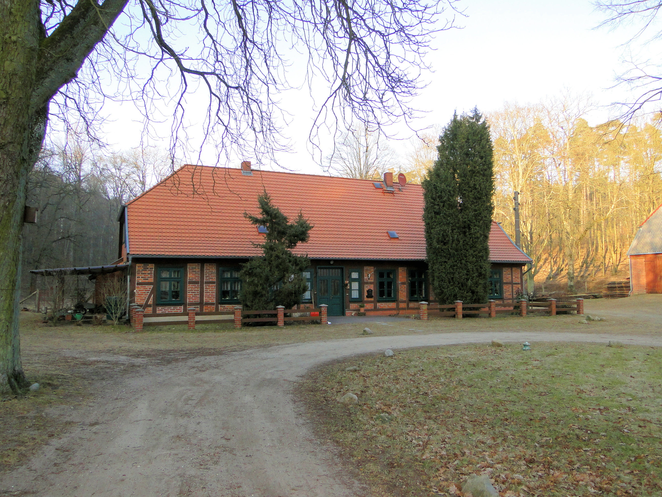 Forester's lodge in Kleesten, district Parchim, Mecklenburg-Vorpommern, Germany